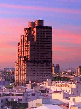 Tainan beauty pond building(Taiwan)